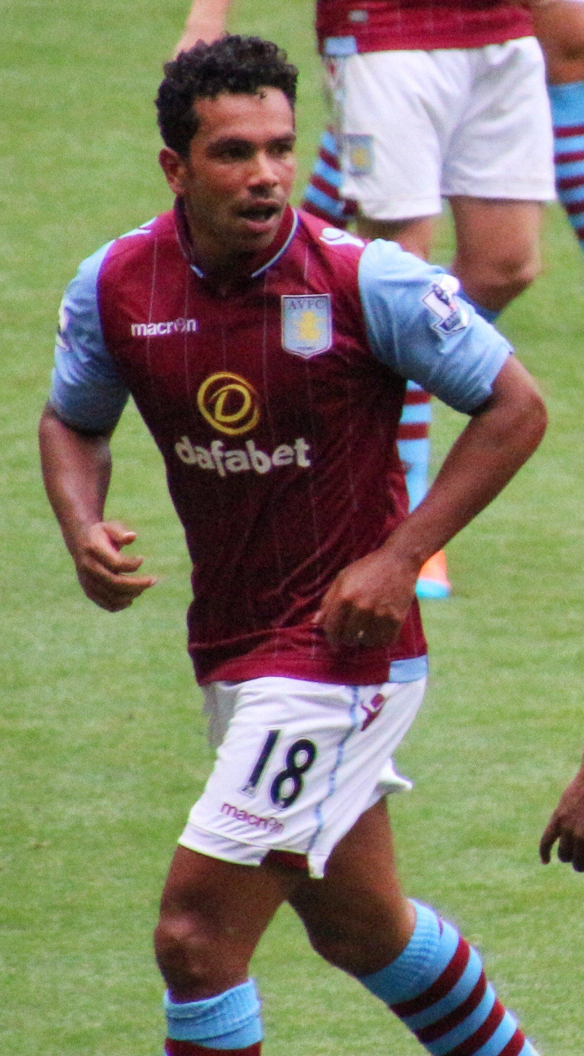 Kieran Richardson playing for Aston Villa against Chelsea at Stamford Bridge, London on 27 September 2014